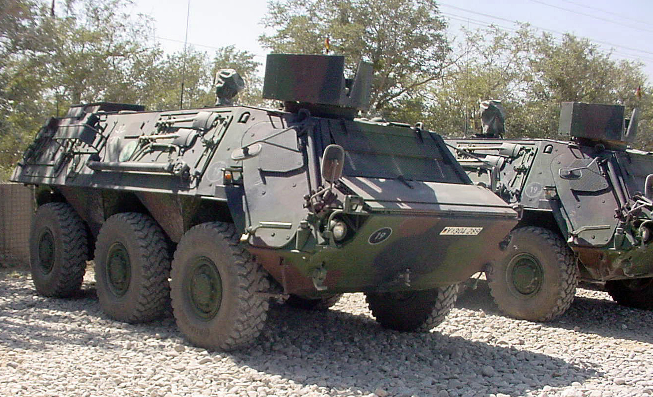 A German Henschel Wehrtechnik Transportpanzer 1 Fuchs (with added armour) armored personnel carriers, part of the coalition forces, parked at Bagram Air Base (AB), Afghanistan, during Operation ENDURING FREEDOM.